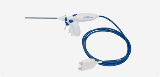 J-Plasma Handpiece